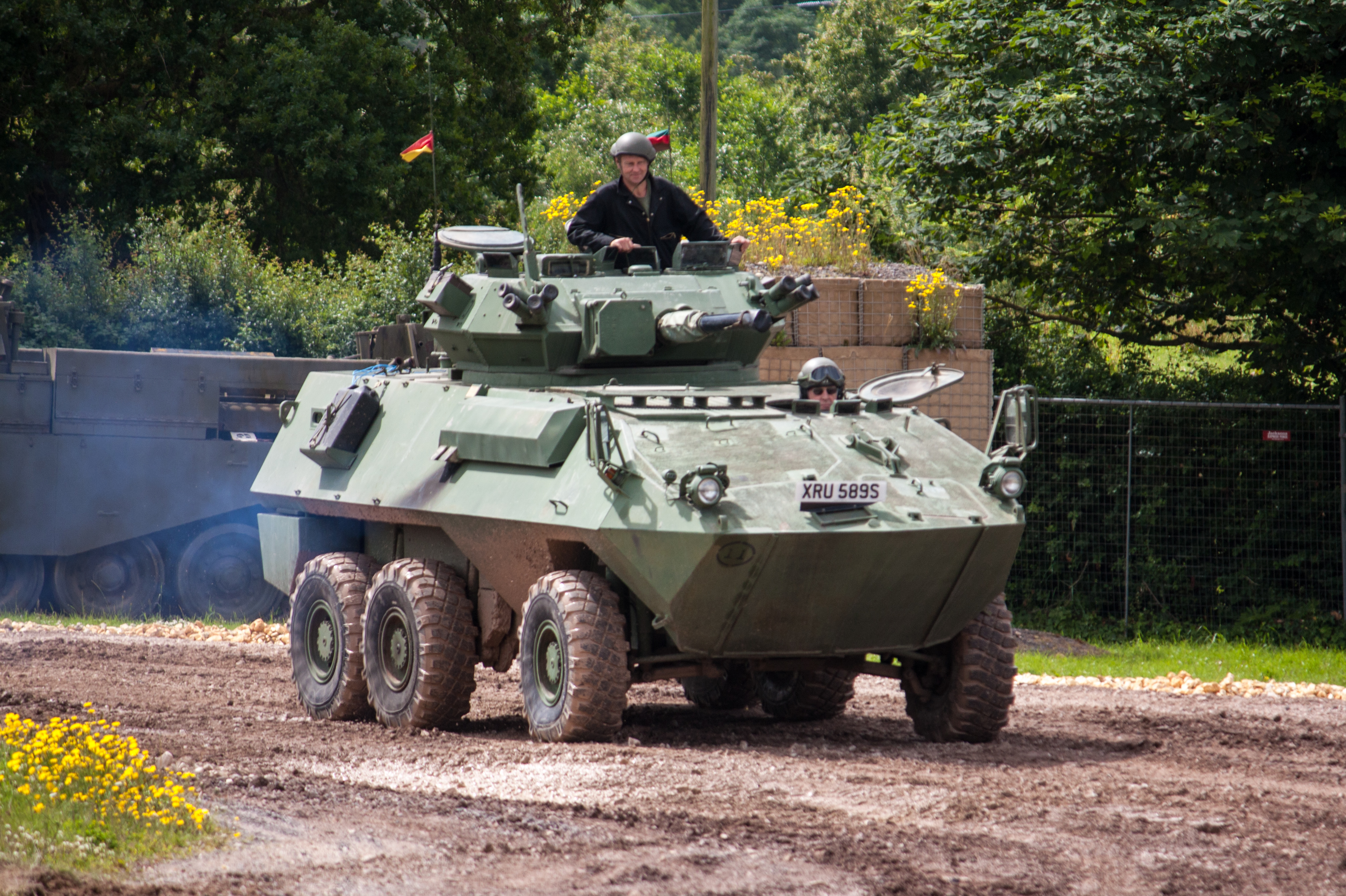 Cougar Fire Support Vehicle